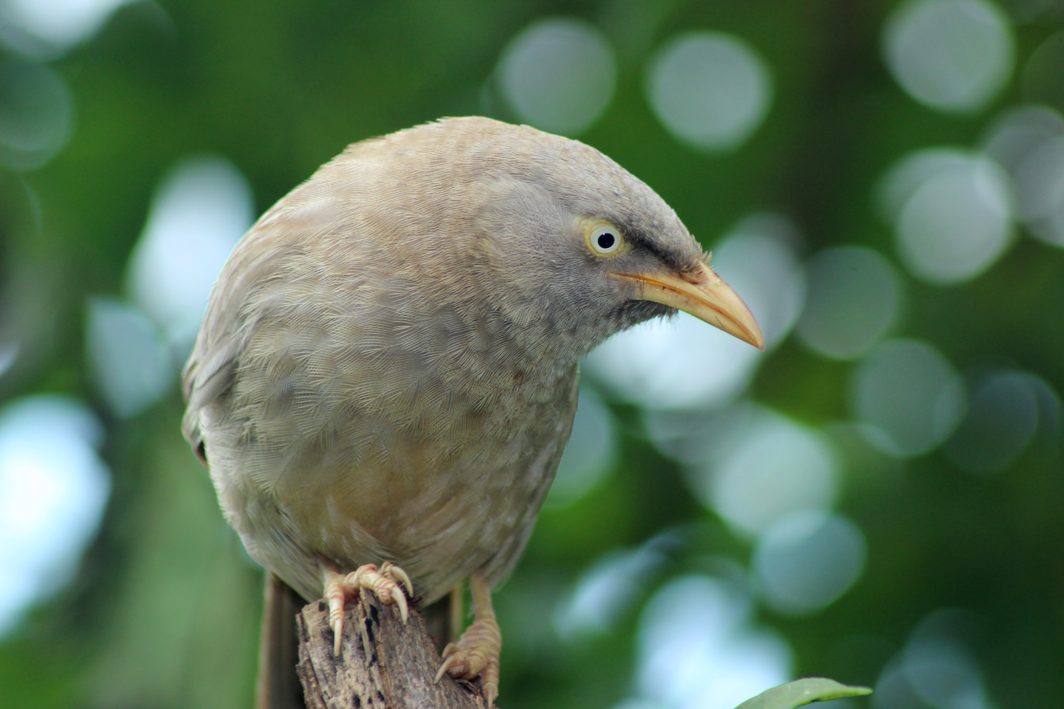 Turdoides striata (Jungle Babbler), Madhya Pradesh, India